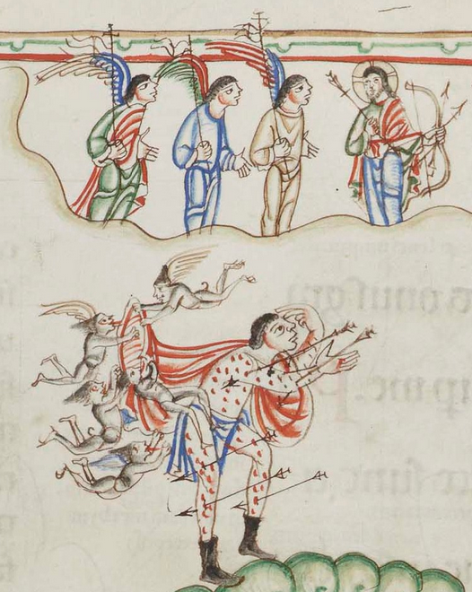 Picture from the TRIPARTITUM PSALTERIUM EADWINI (THE CANTERBURY PSALTER).